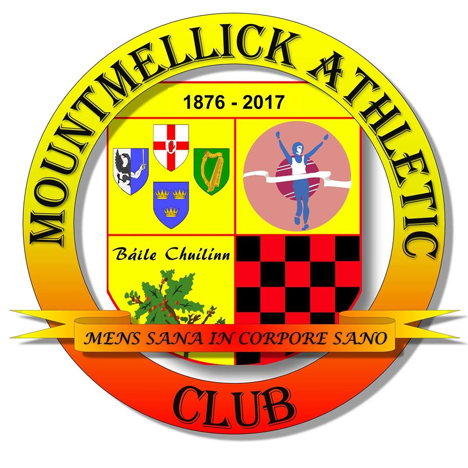 LATEST CLUB CREST